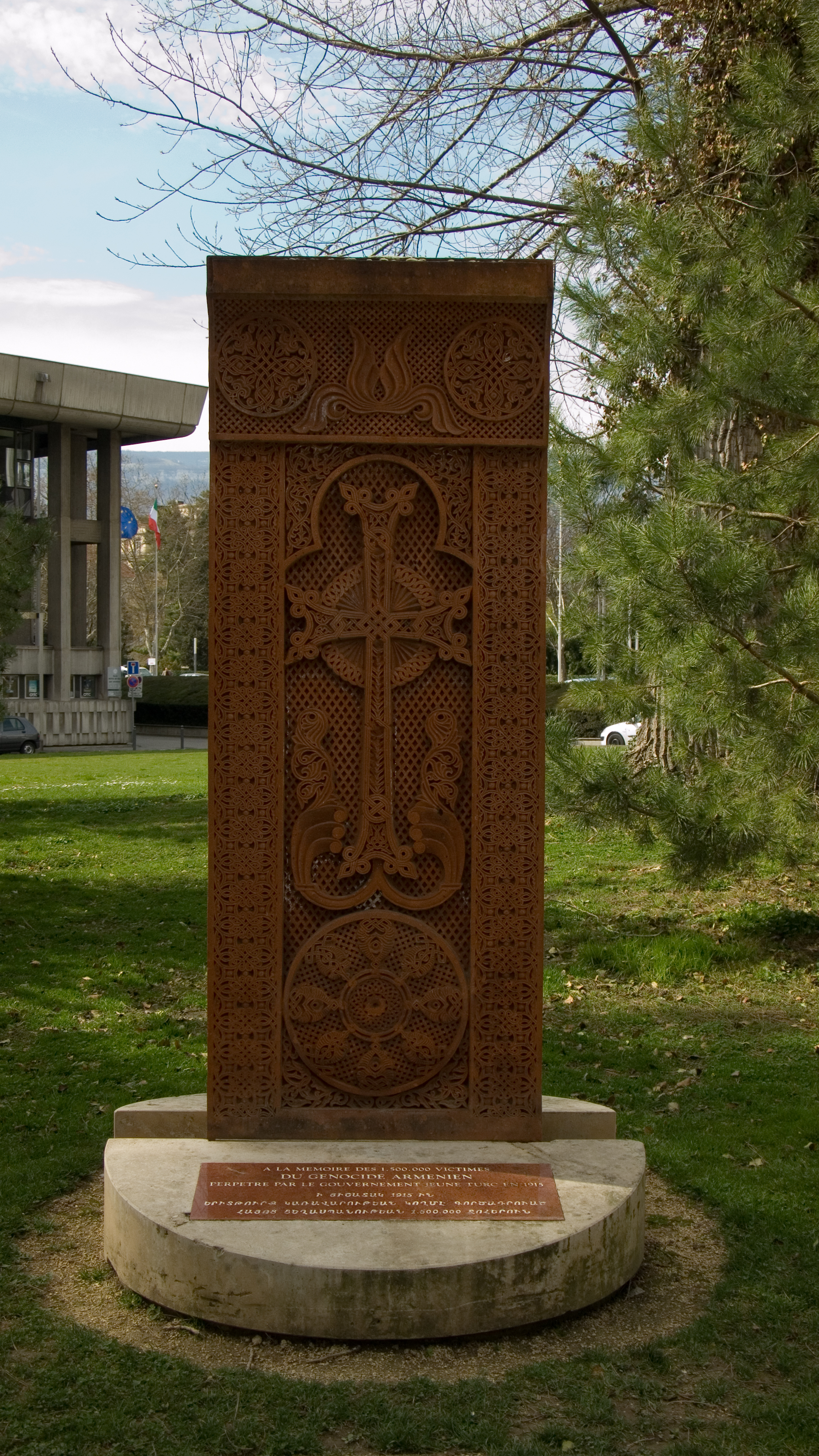 A cross stone in memory of the Armenian Genocide of 1915. Grenoble, France.